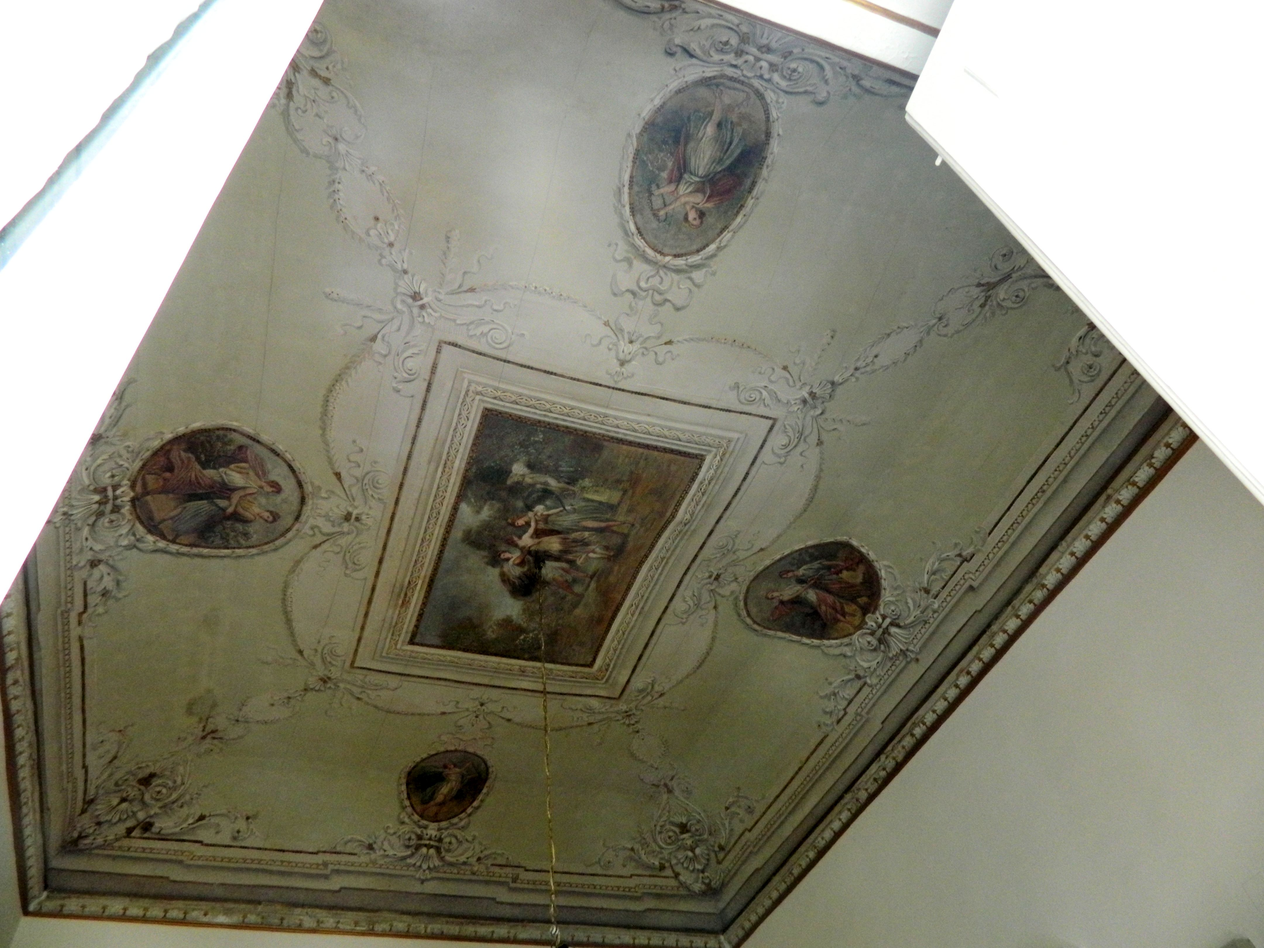 Palazzo Filomarino (Napoli) - Affresco sulla volta di una sala dell'appartamentodi Benedetto Croce